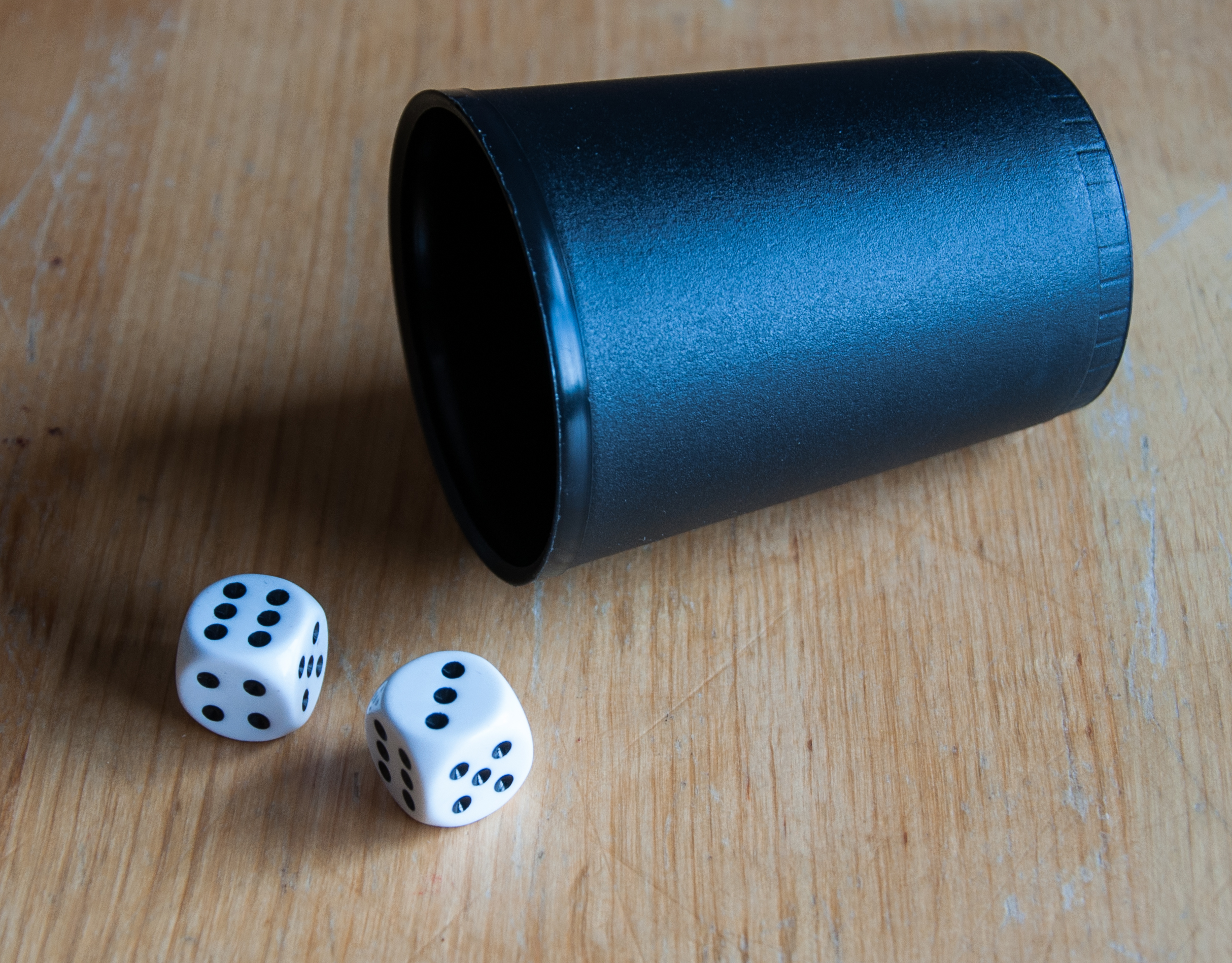 White dice